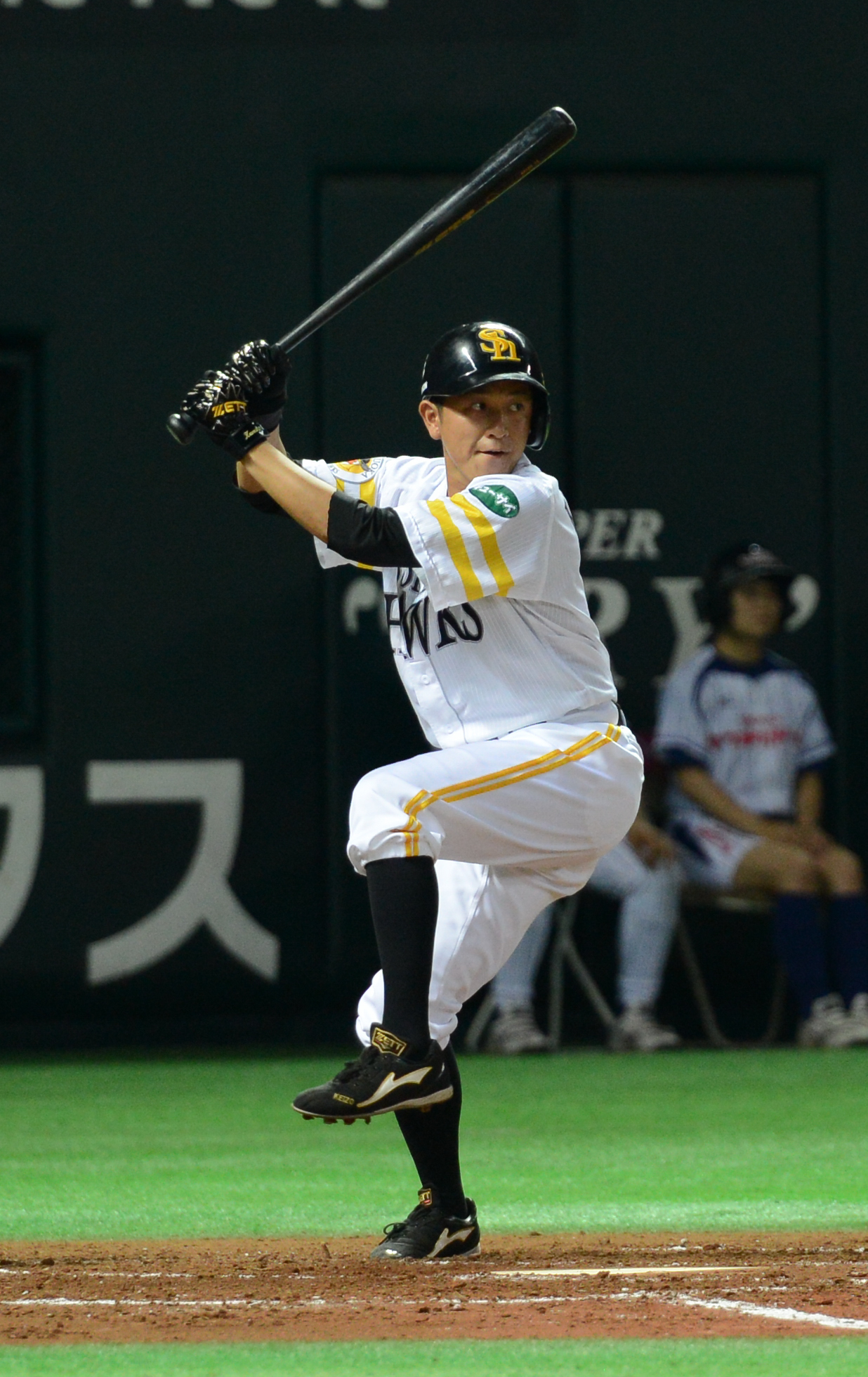 Keizo Kawashima, infielder of the Fukuoka SoftBank Hawks, at Fukuoka Dome.